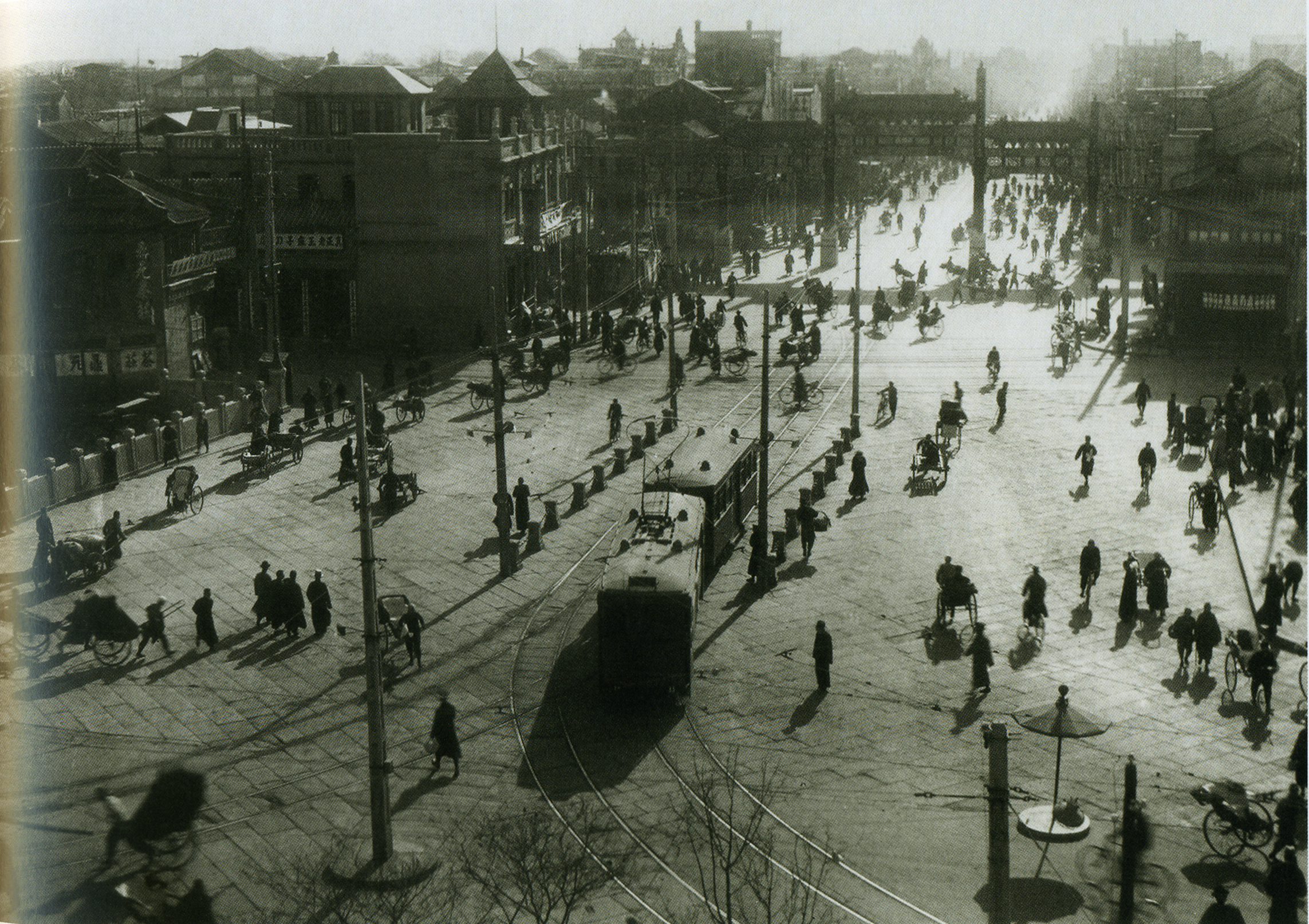 Peking in the 1930's